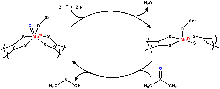 Proposed mechanism of DMSO reductase